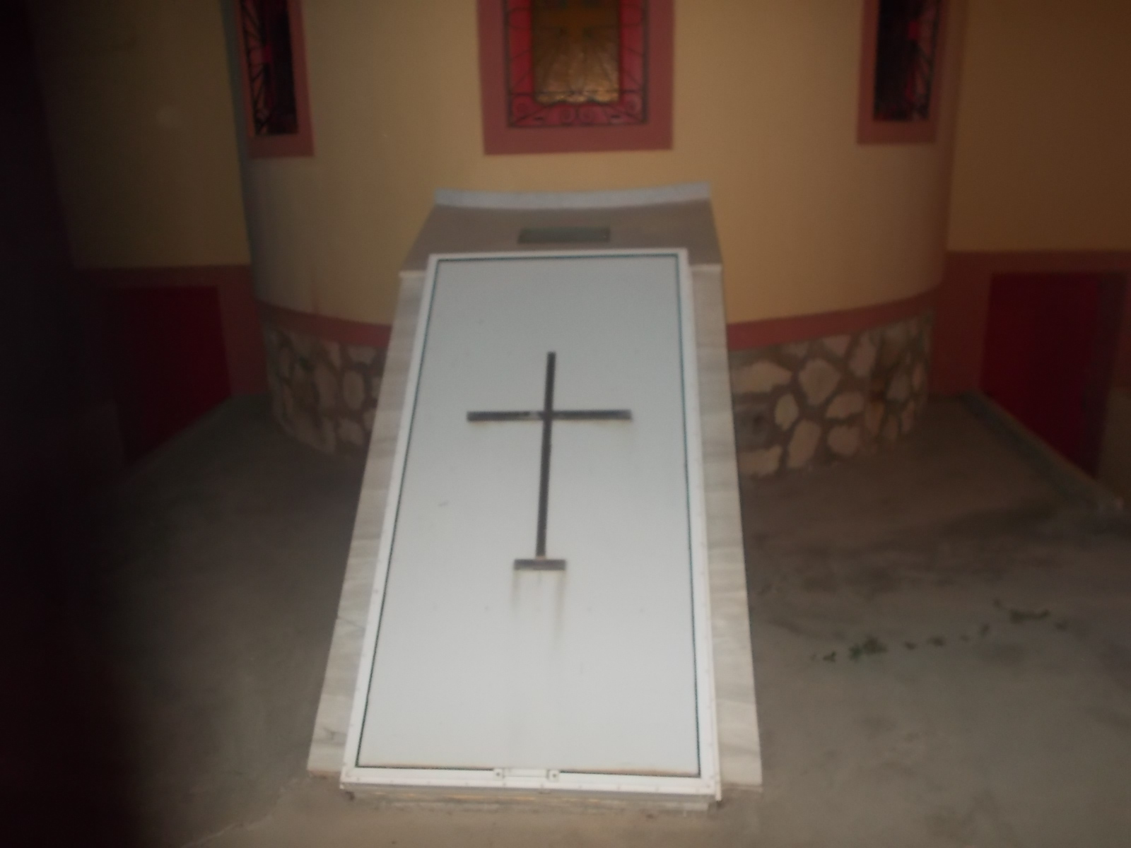 Othodox bishop Filotheos grave in Ierapetra